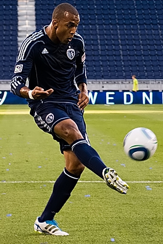 Sporting KC forward Teal Bunbury plays a ball during a US Open Cup 3rd round match against Chicago Fire Premier at LIVESTRONG Sporting Park in Kansas City, Kansas on June 28, 2011.